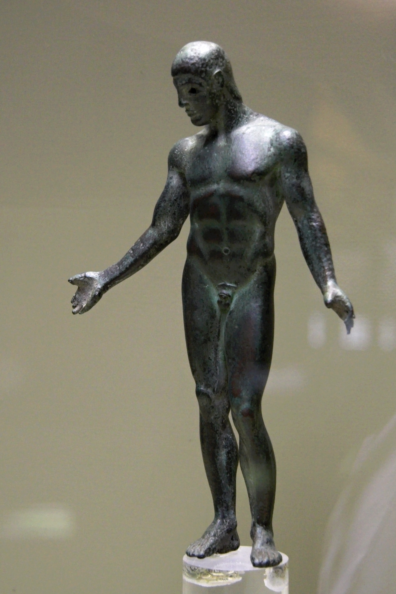 "Efebo di Adrano". Male figurine, small bronze. Sicily. Archaeological Museum of Syracuse.